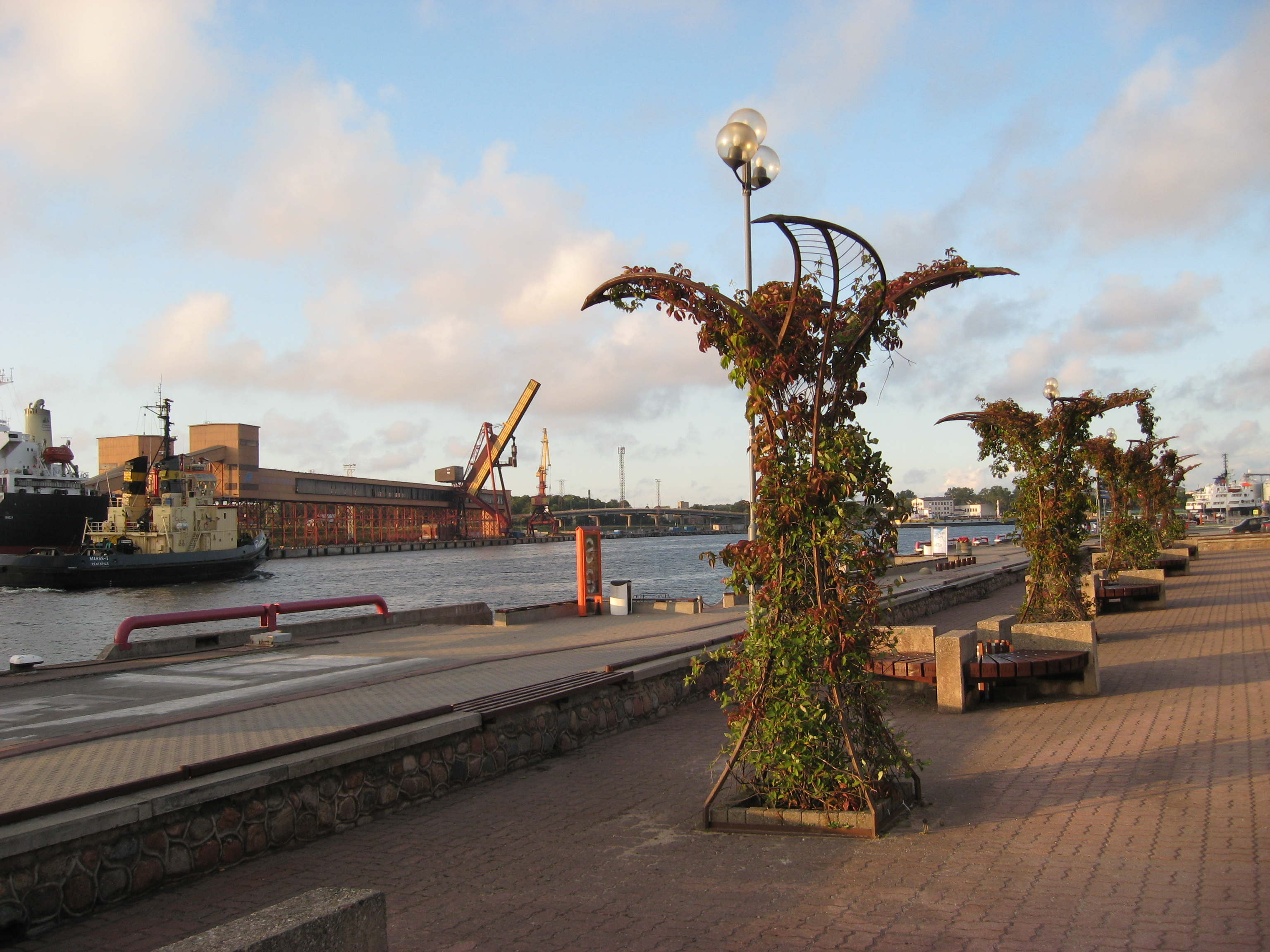 The port in Ventspils, Latvia.